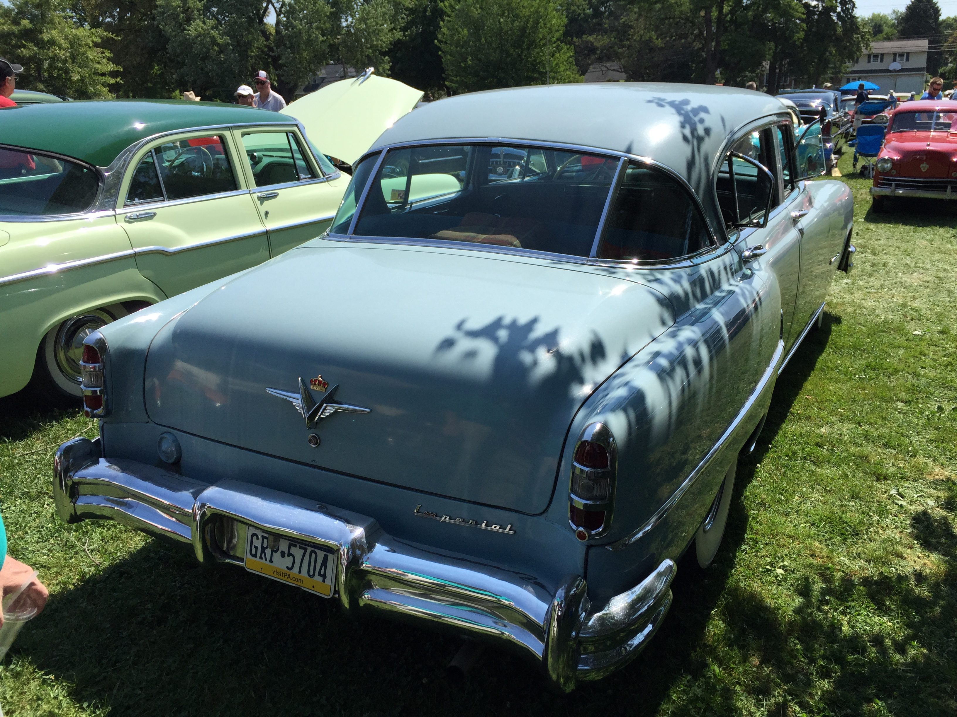 1953 Chrysler Custom Imperial, the six-passenger limousine model finished in blue. Standard equipment included electric windows, electric division window, floor level courtesy lamps, rear compartment heater, fold-up footrests, seatback mounted clock, as well as special luxury cloth upholstery. Picture taken at the 52nd Annual "Das Awkscht Fescht" antique car show in Macungie, Pennsylvania.